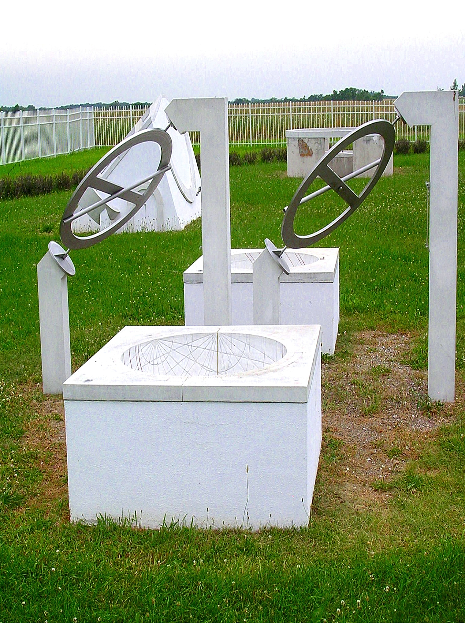 Photo of one of the instruments at the Maharishi Vedic Observatory located in Maharishi Vedic City, Iowa. Photo taken and submitted by user: Keithbob